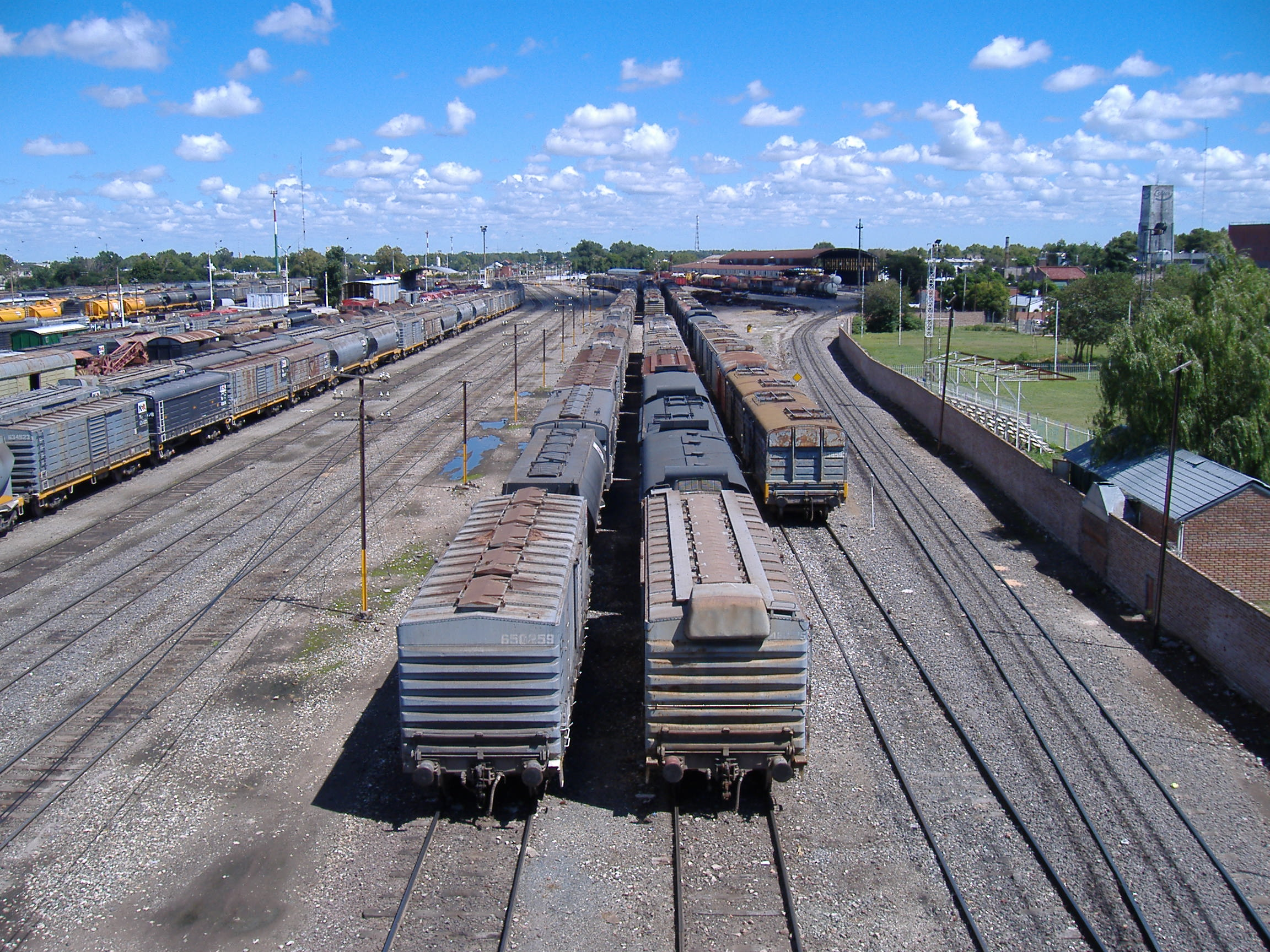 The Patio Parada, base of operations of the railway system in Rosario, Argentina, now managed by Nuevo Central Argentino railway company. The Patio is located on the Cruce Alberdi (Alberdi Cross, the confluence of Alberdi Avenue, on the north-east part of the city, with Salta St. and Bordabehere St.). This view is from the elevated Viaducto Avellaneda. This picture was taken by Pablo D. Flores on 4 March 2006.